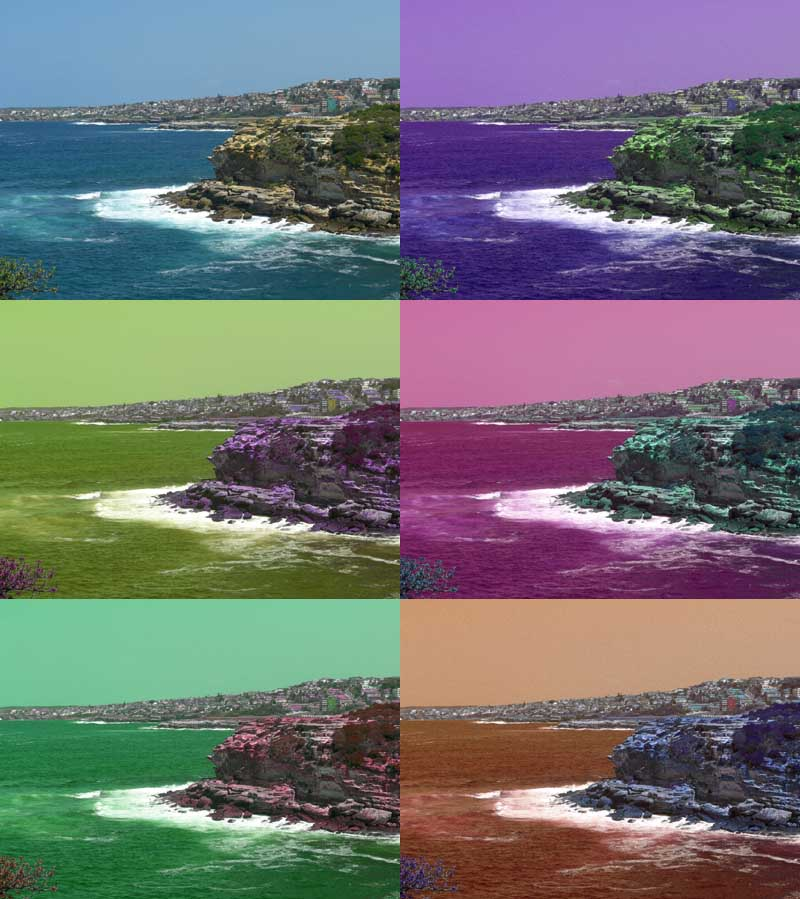 Hue shift tool in Adobe Photoshop allows the hue of an image to be altered. Original image top left.